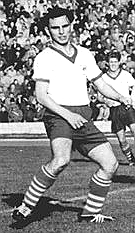 Factual corrections and alternative descriptions are encouraged separately from the original description. Additionally errors can be reported at this page to inform the Bundesarchiv. Original historic description: Gerhard Franke, Turbine Erfurt, 1955